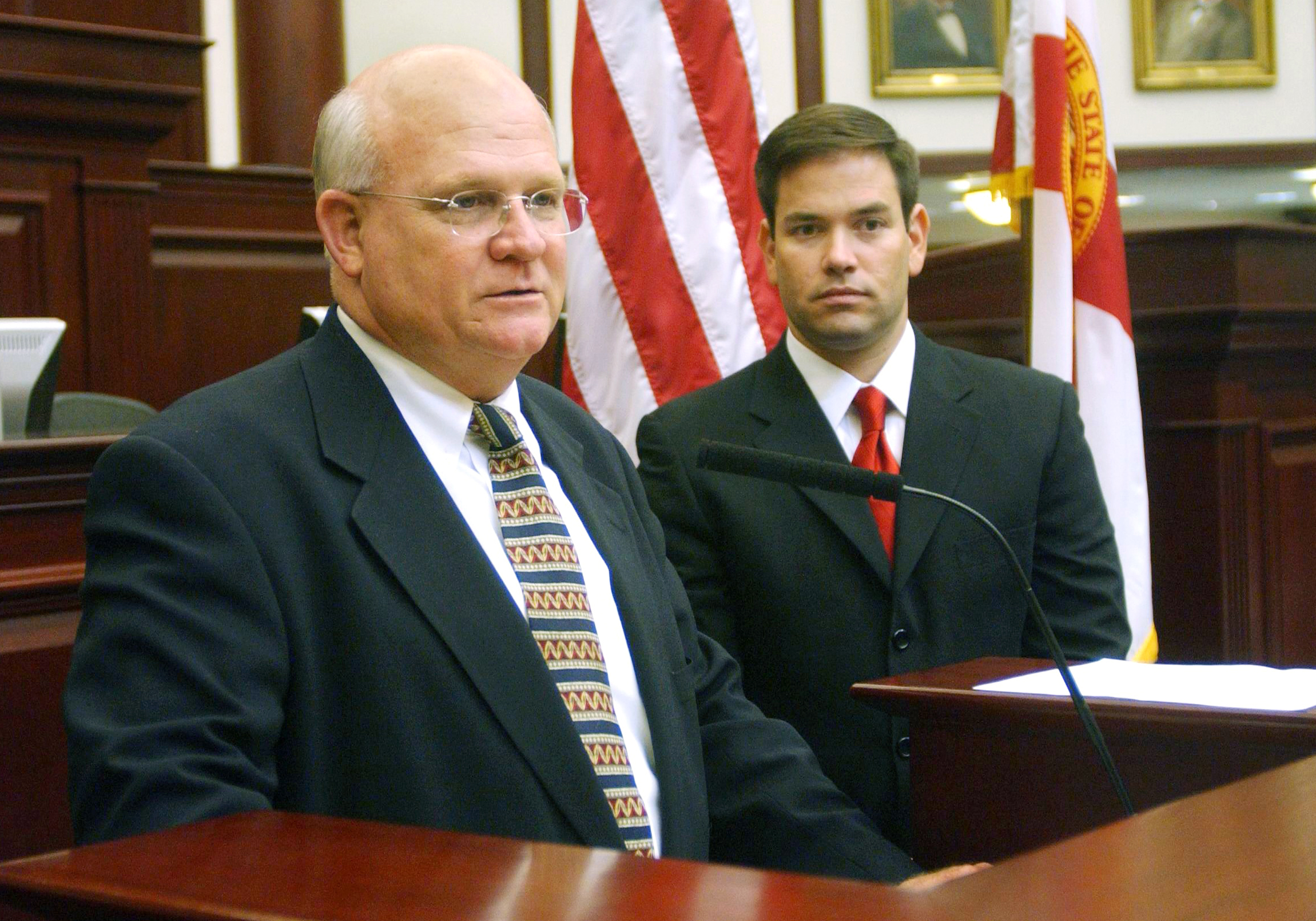 With Speaker Marco Rubio, R-Miami, at his side, right, Speaker pro tempore Dennis K. Baxley, R-Ocala, left, compliments House staff for their years of service, April 4, 2007.